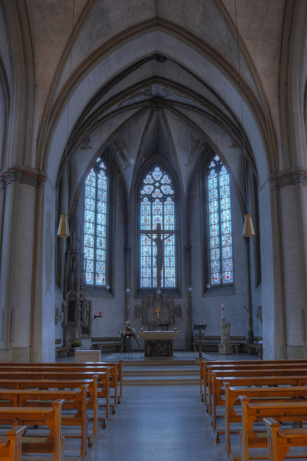 Havixbeck (North Rhine-Westphalia, Germany) – Catholic Saint Dionysius Church – view trough the nave to the choir This photograph was taken with a Nikon D3000.